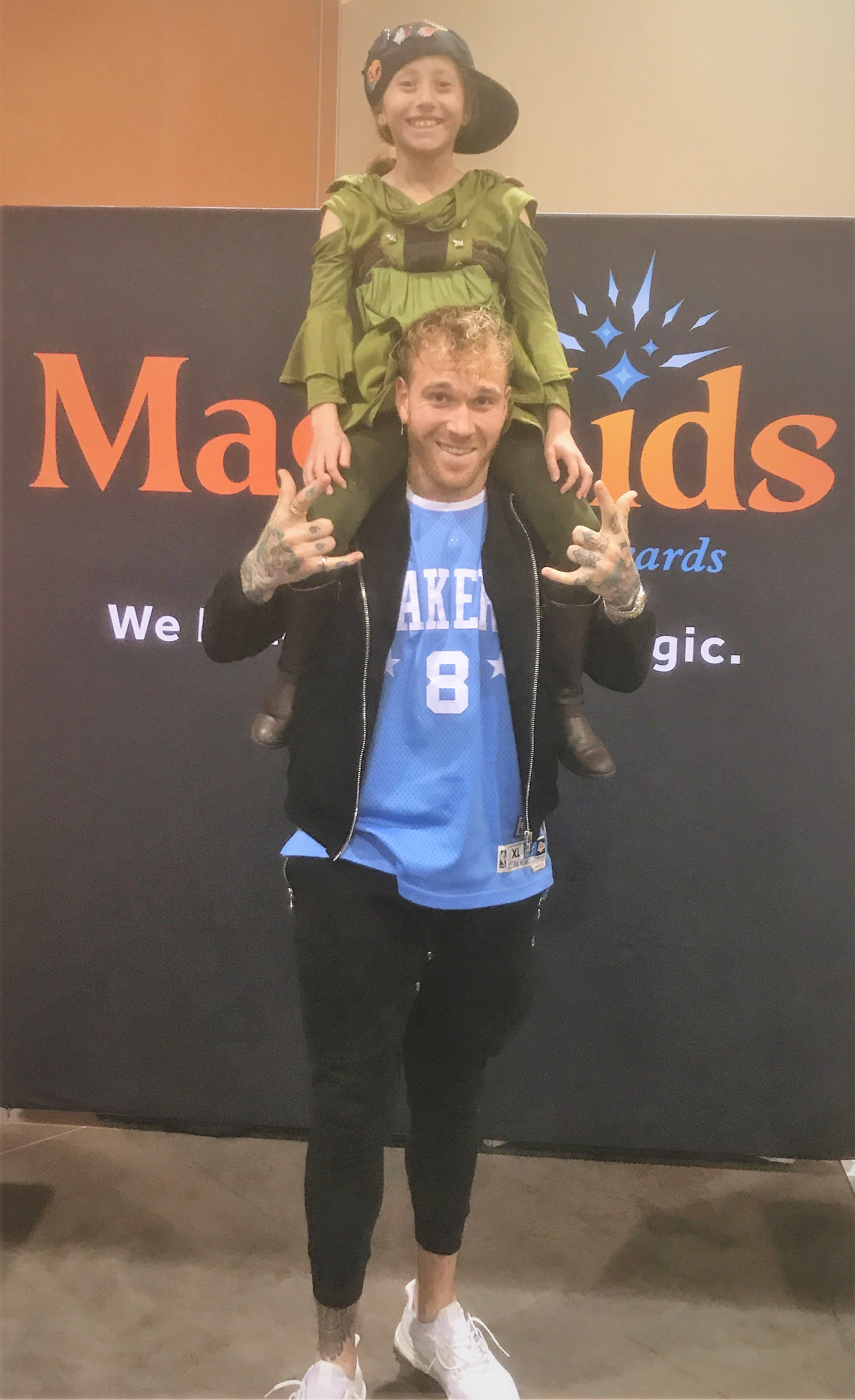 Young "Magic:the Gathering" player Dana Fischer and football player Cassius Marsh at Grand Prix Phoenix, in front of MagiKids poster.